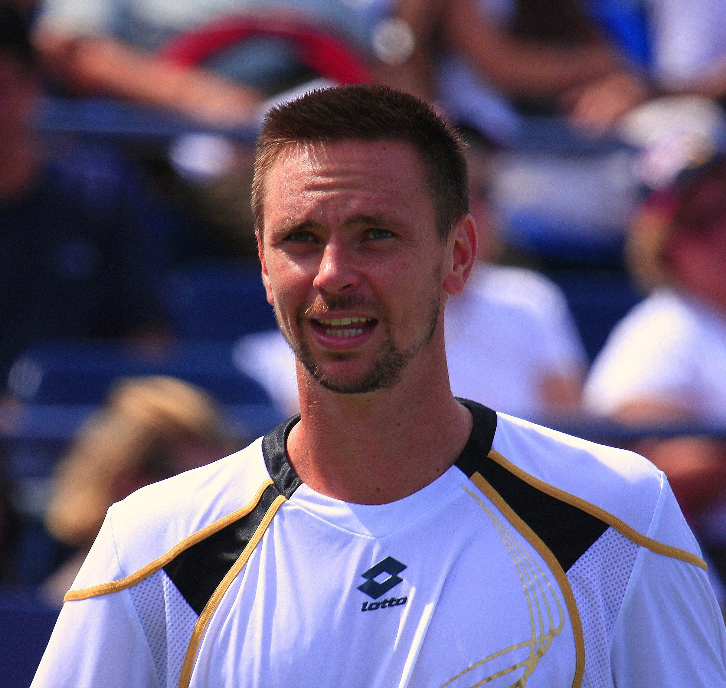 Robin Soderling defeats Nikolay Davydenko at 2009 US Open